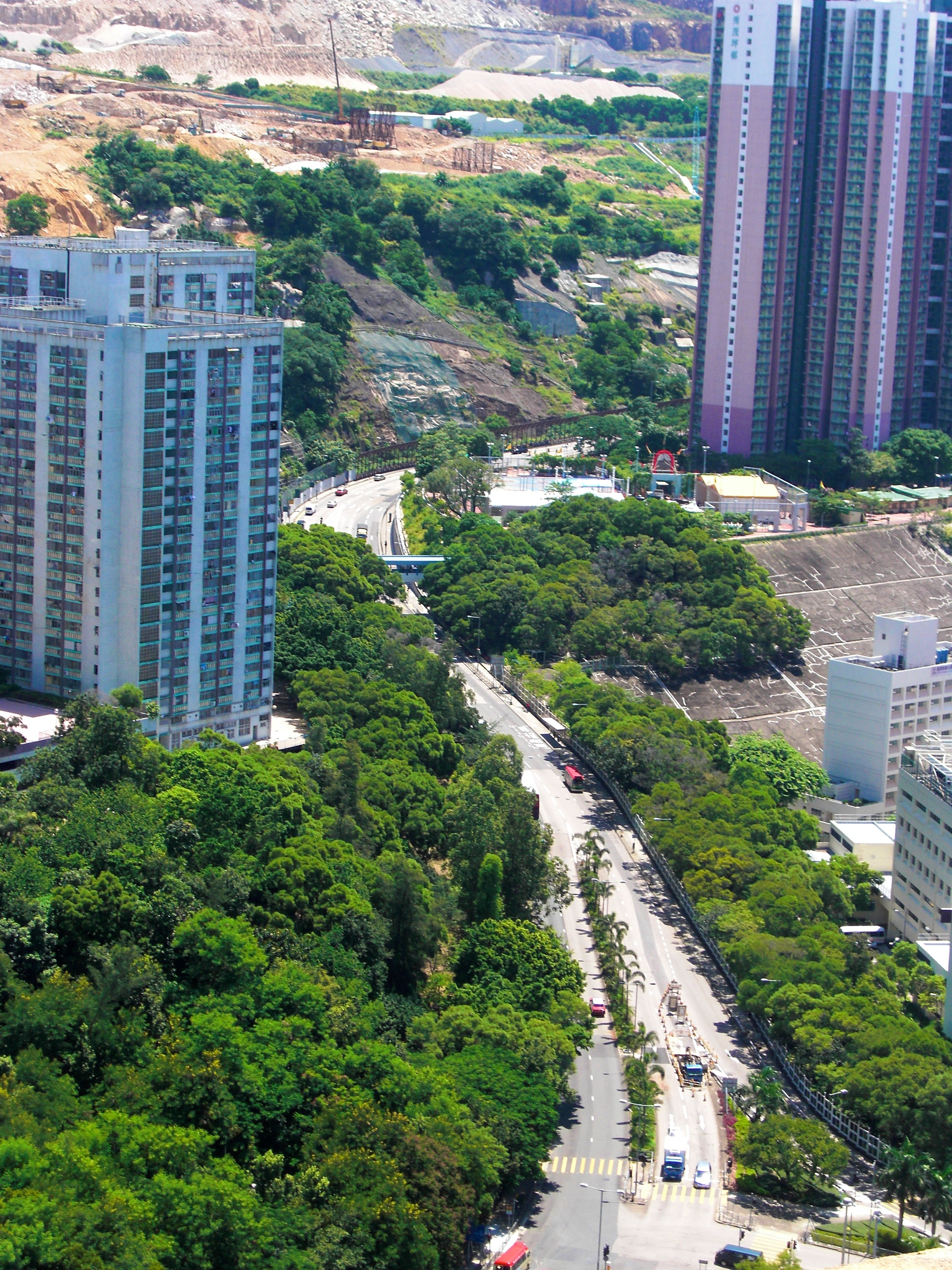 Looking downwards from Shum Wan Shan, a part of Sau Mau Ping Road is seen. Tai Sheng Tok Anderson Road Quarry stands at the background.